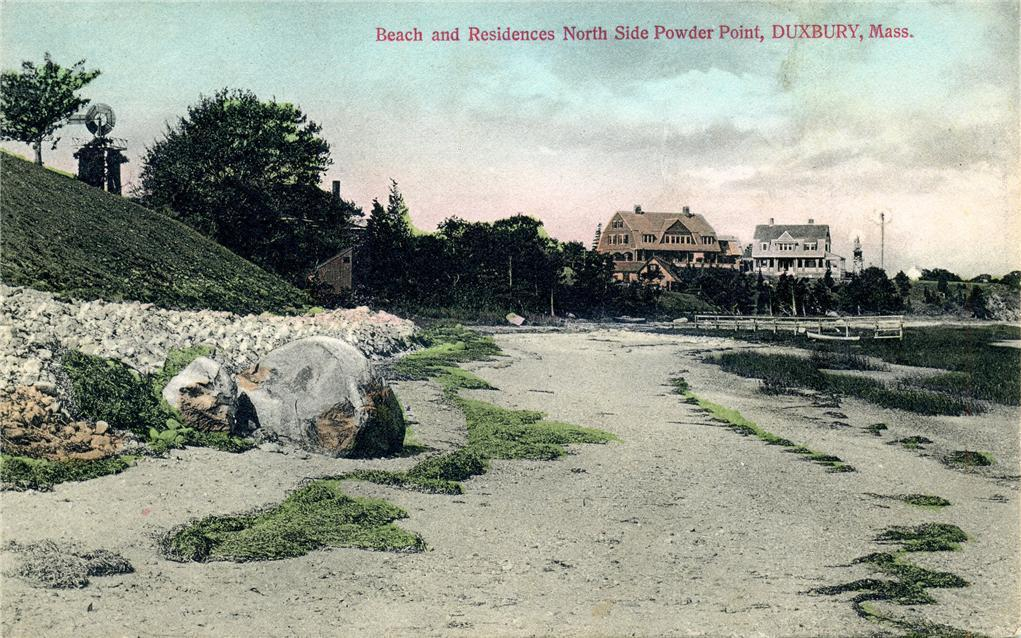 Beach and residences on the north side of Powder Point, Duxbury, Massachusetts; from a c. 1910 postcard.